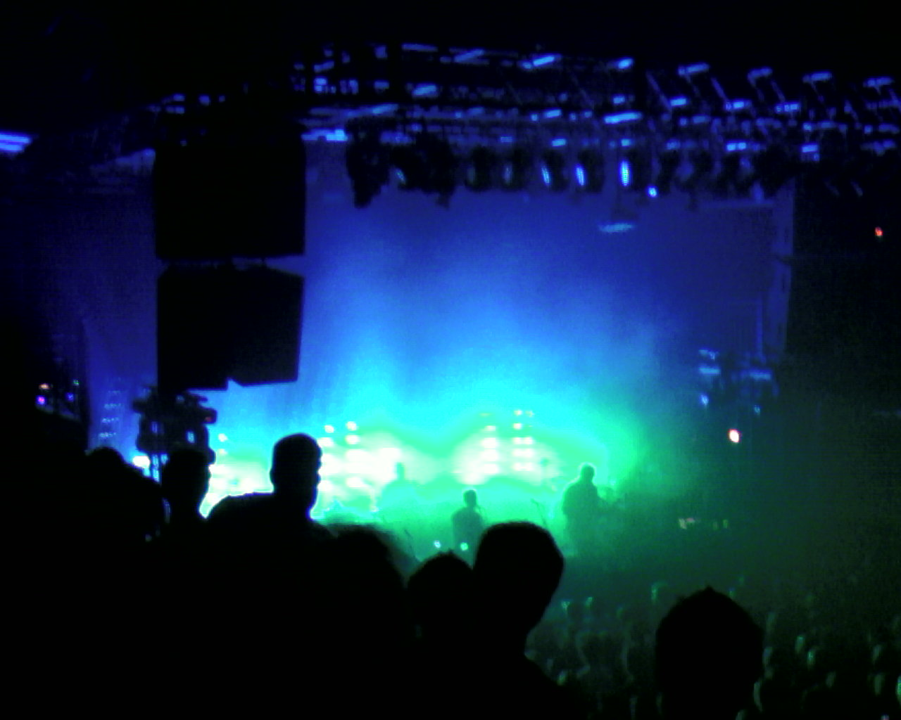 A view from the upper left balcony at the 930 club in Washington D.C. of the second show of Massive Attack.